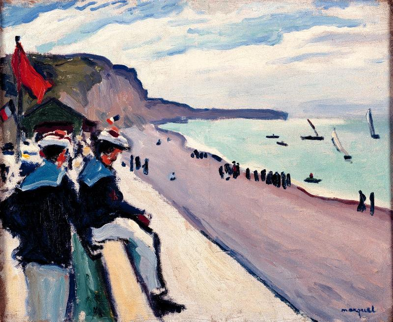 The Beach at Fécamp